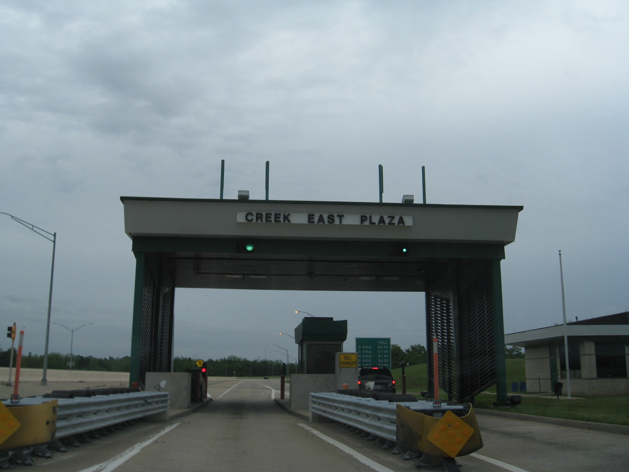 The Creek East toll plaza on the Creek Turnpike, Tulsa, Oklahoma.